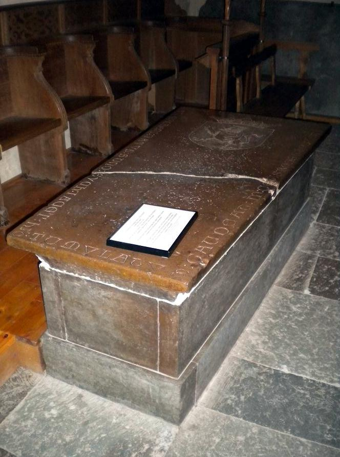 Grave of purported Prince of Sweden Sonny Cisco (Sune Sik) at Vreta Cloister ChurchPlace: Linköping, Sweden